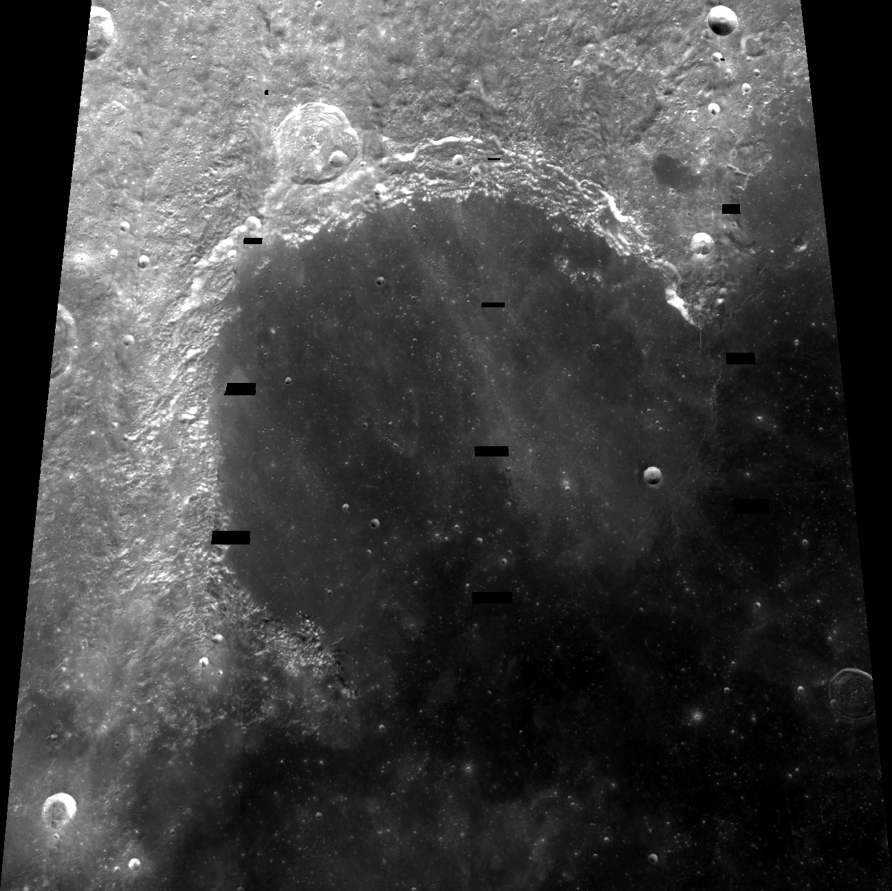 Sinus Iridum. The small horizontal black rectangles represent regions not covered by the composited photographs.